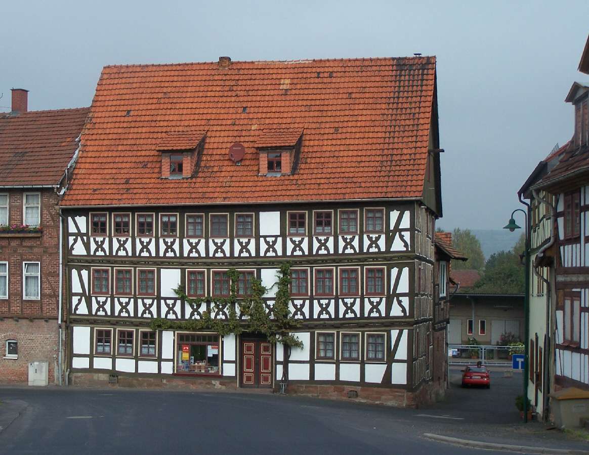 The listed timber framed house in Berka called Storchenbäckerei.